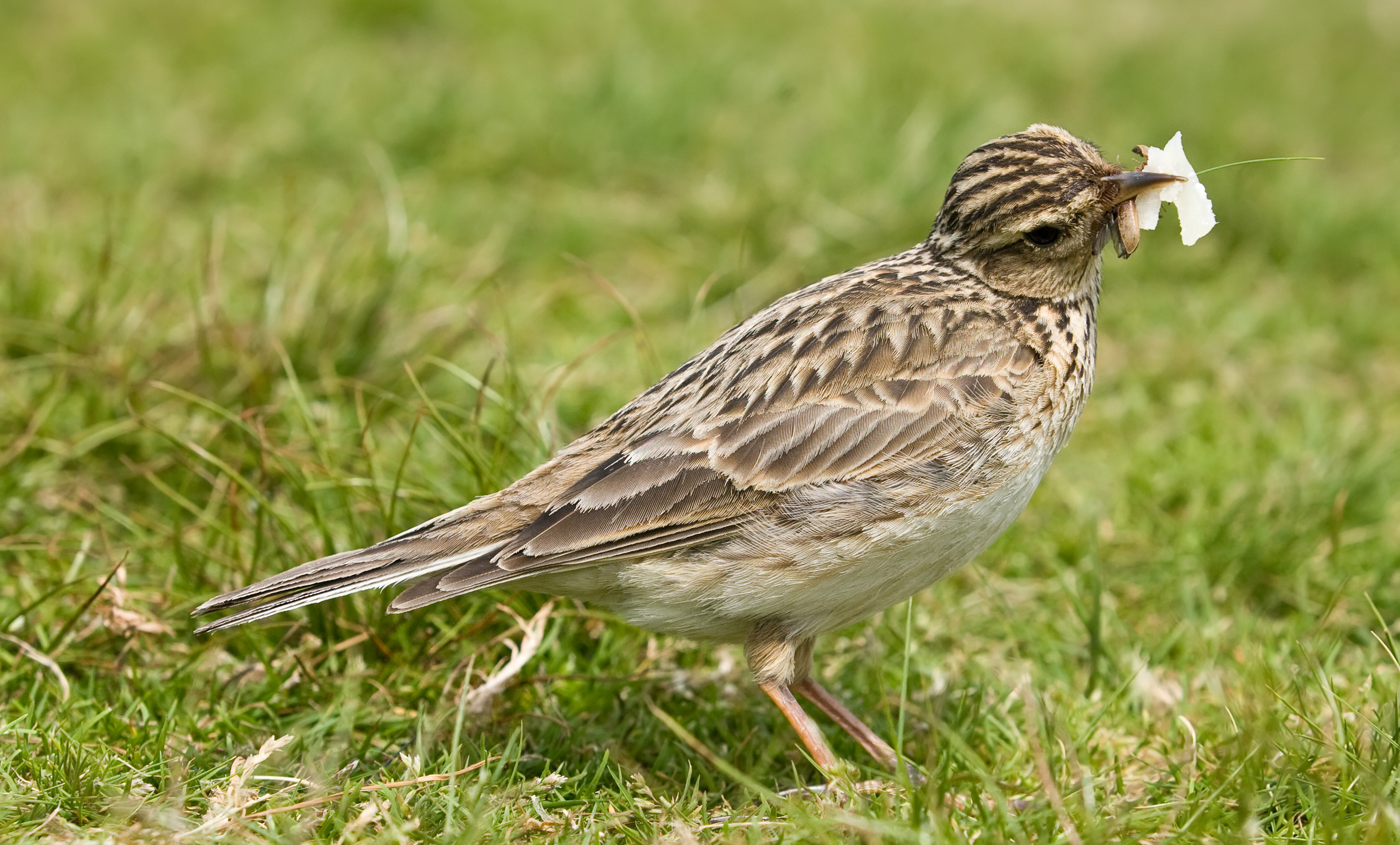 A skylark (Alauda arvensis, sex unknown) with insects in its beak, taken by myself in the Lake District near Derwent Water, in Cumbria, England. Taken with a 5D and 70-200mm f/2.8L at 200mm and f/8.